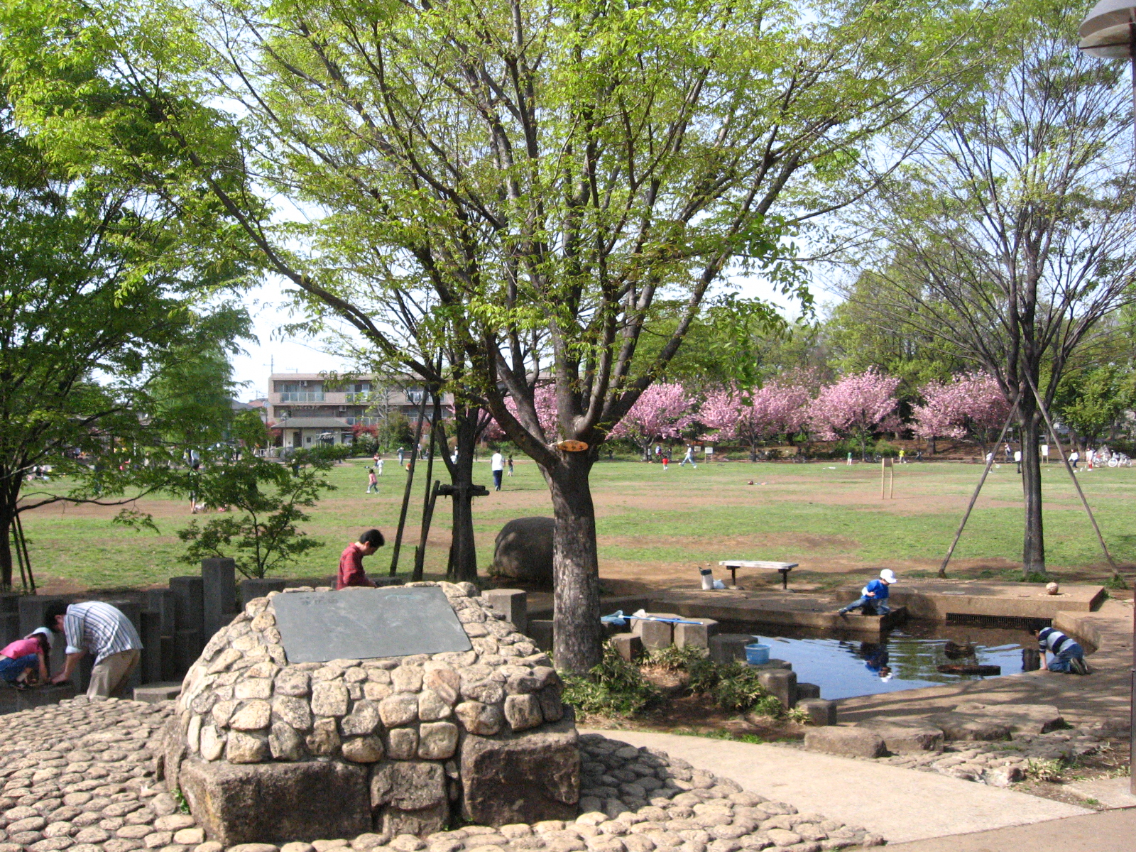 Tateno park from Nerima, Tokyo.